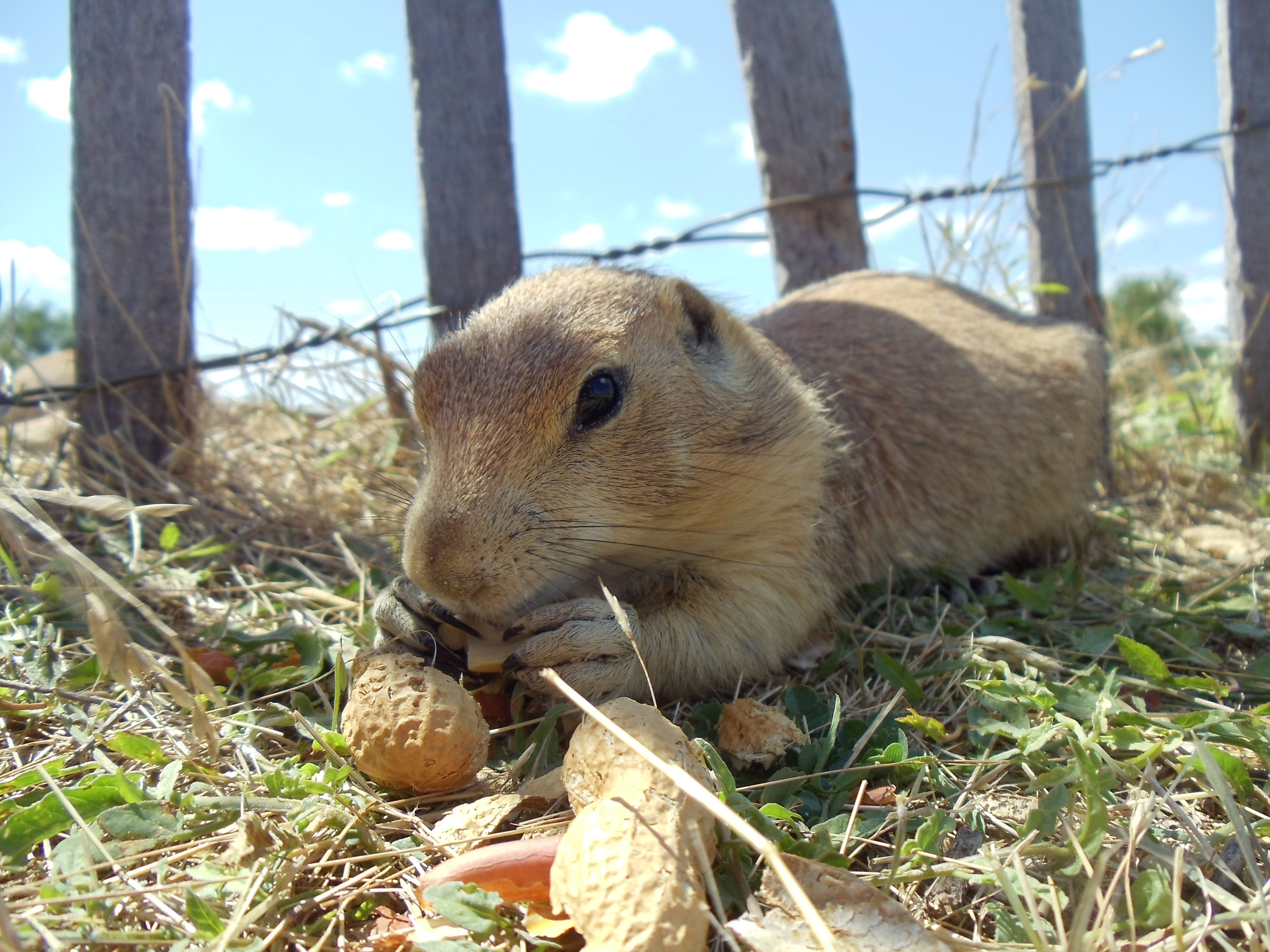 A Black-tailed Prairie Dog, Cynomys ludovicianus, laying down and eating a peanut.